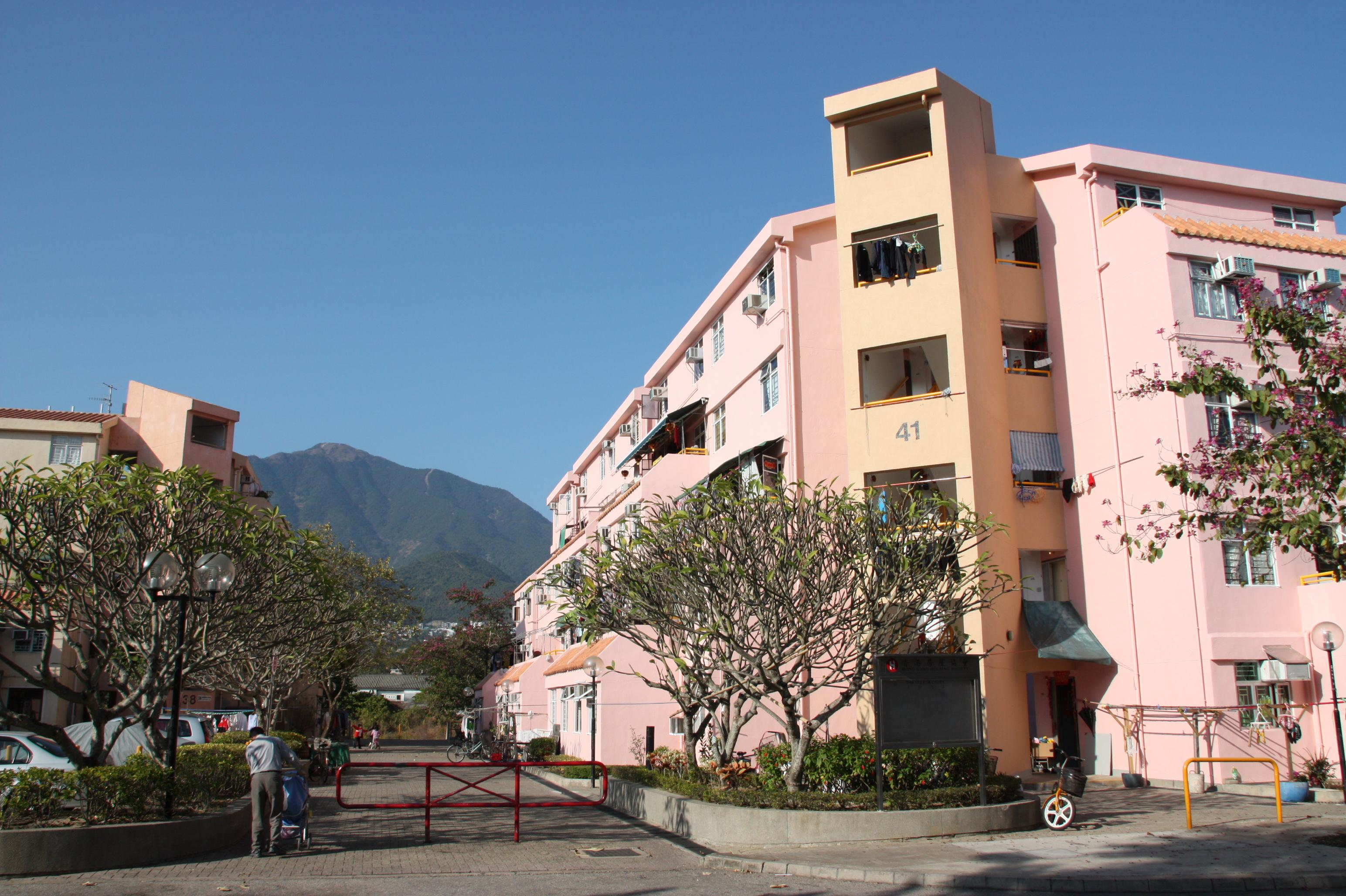 Sha Tau Kok Chuen